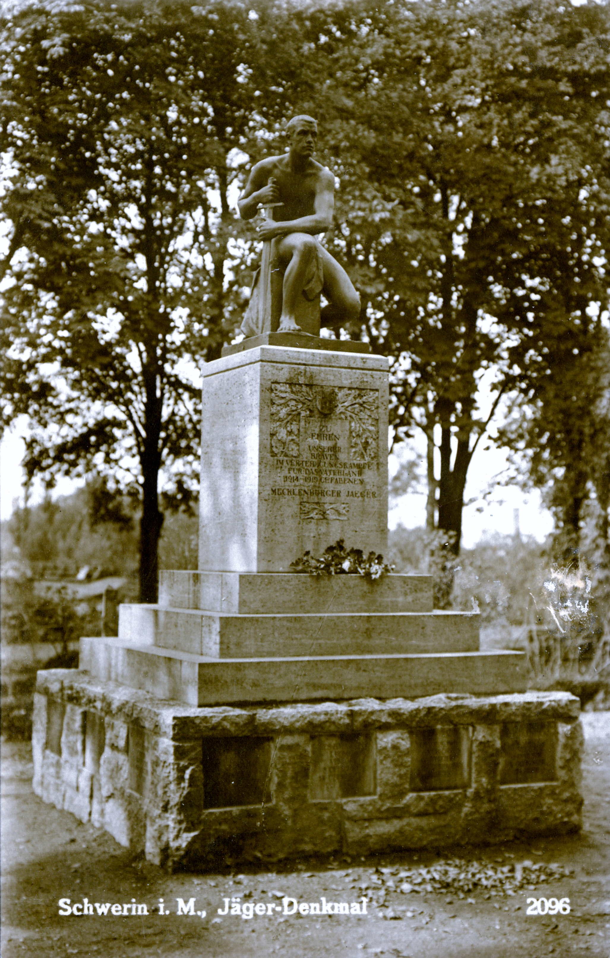 World War I memorial Jäger-Regiment No. 14 in Schwerin, sculpted by Ernst Müller-Braunschweig, unveiled in 1921, destroyed